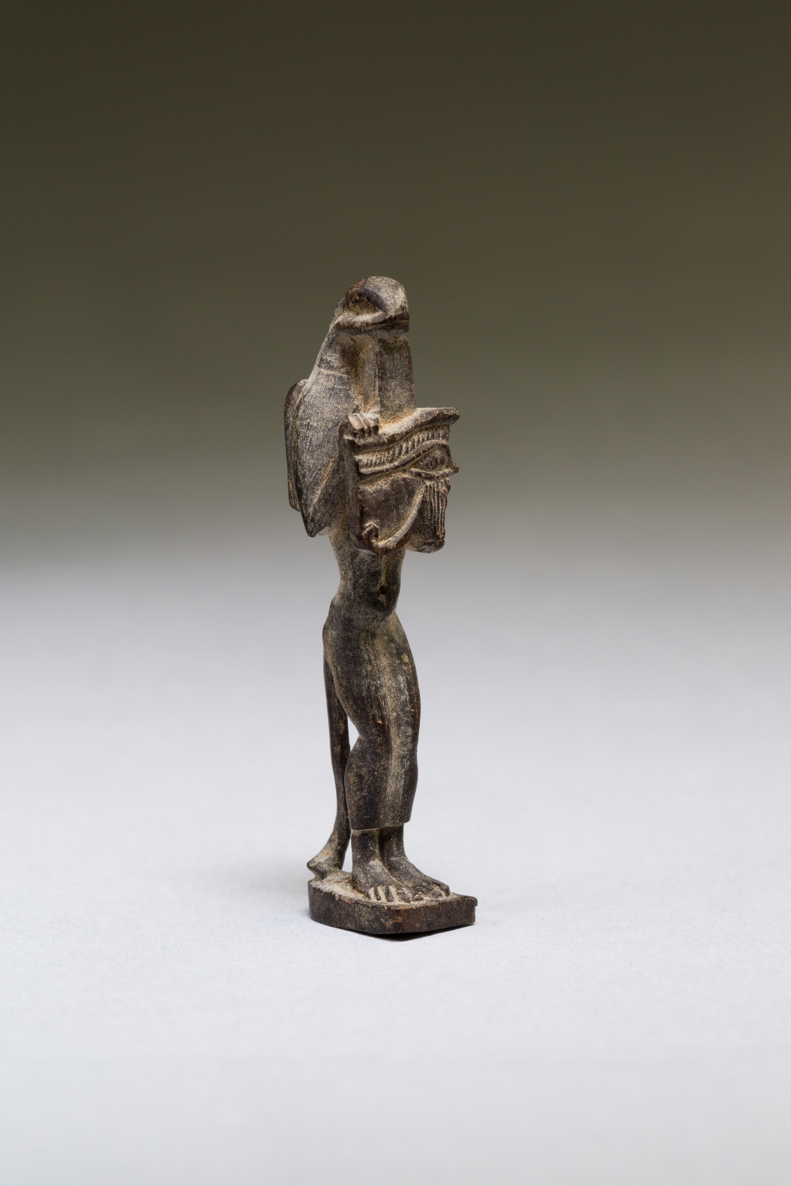 Figurine, Nehebkau, snake